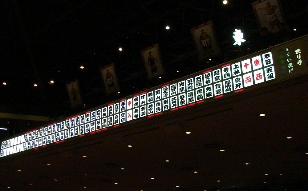 Sumo electric scoreboard,Ryogoku Kokugikan.